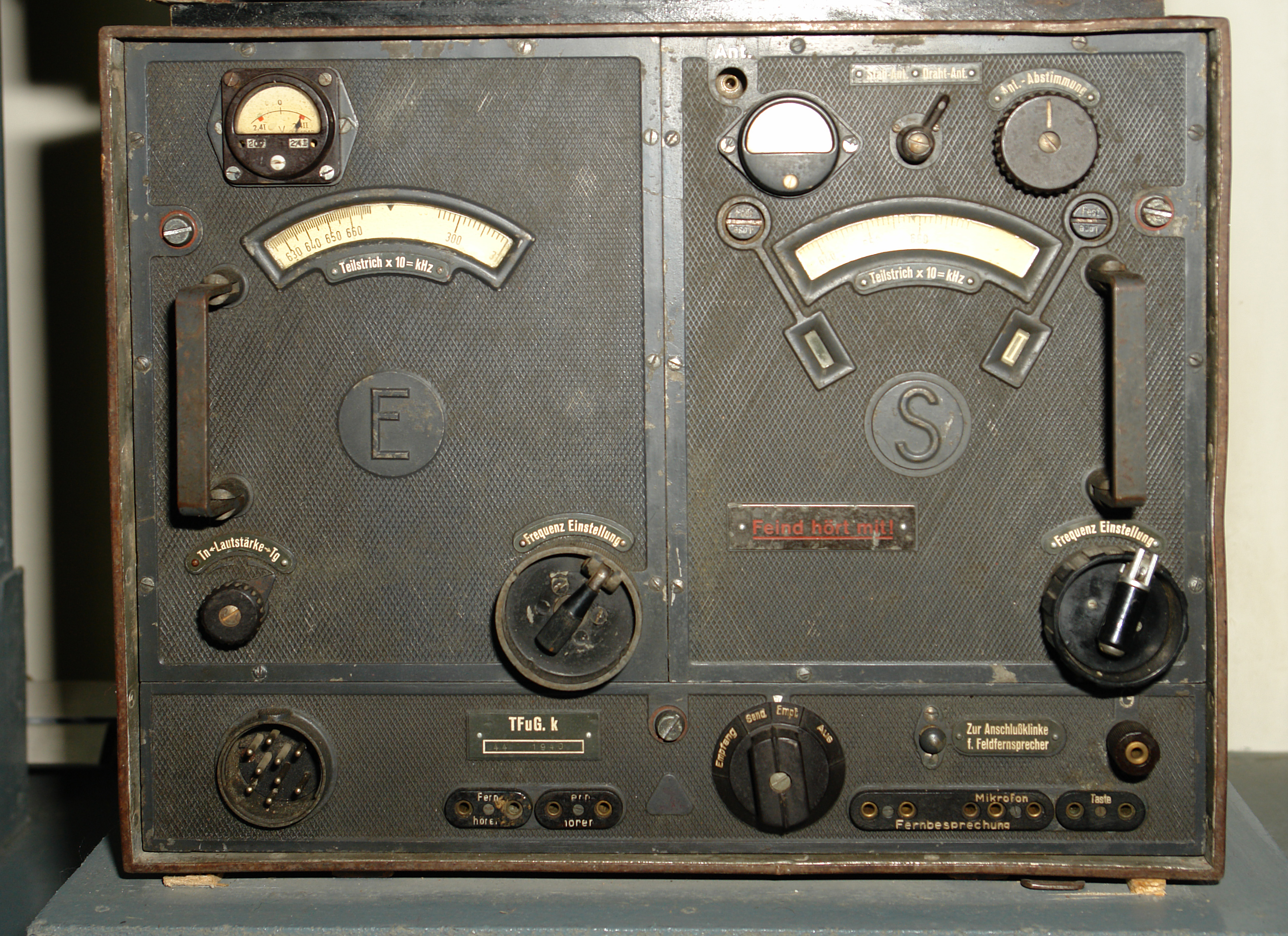 German Wehrmacht Radio Set Tornisterfunkgerät K (TFuG.k, "Rucksack transmitter type K")). Circa 1939. Together with tape recorder Tonschreiber B, it was a basic radio transmitter set of the regimental link of control. Transmitter power 2 watts, frequency band 85 - 120.0 meters (2.5 to 3.5 MHz). Its frequency range corresponded with Red Army radio sets. (RAF, RB, RSB etc.) Therefore in combination with the multifunction tape unit it was suited for radio intelligence and spreading of disinformation. The red warning label reads, "The enemy is listening!" Military History Museum of Artillery, Engineers and Signal Corps, Saint Petersburg.